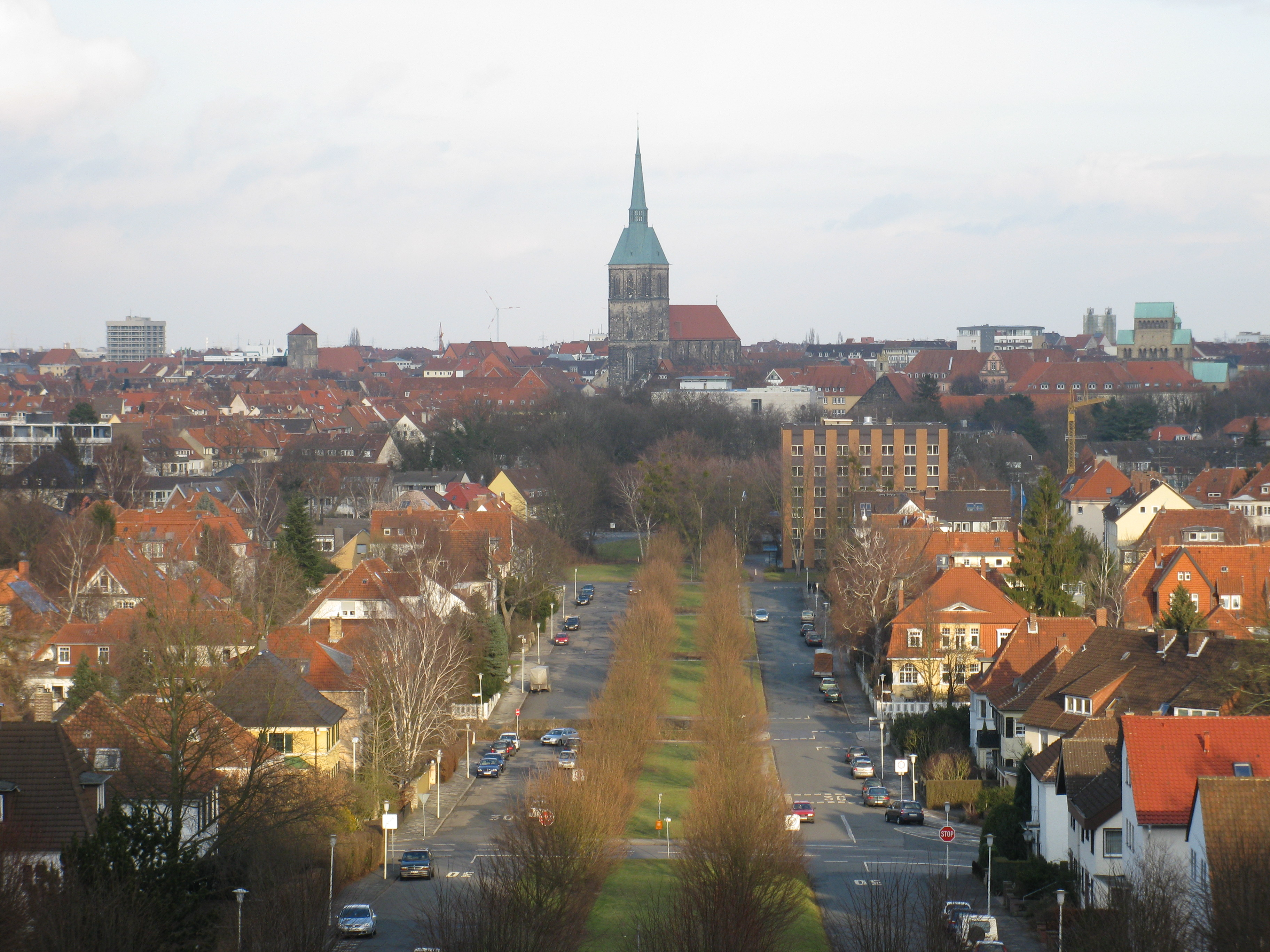 Mittelallee, City of Hildesheim, Germany